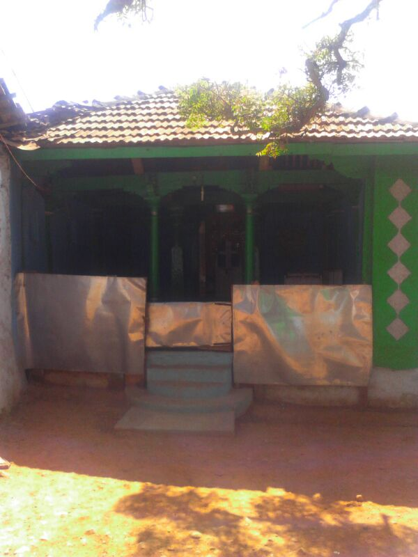 shahabuddin shah vali dargaah